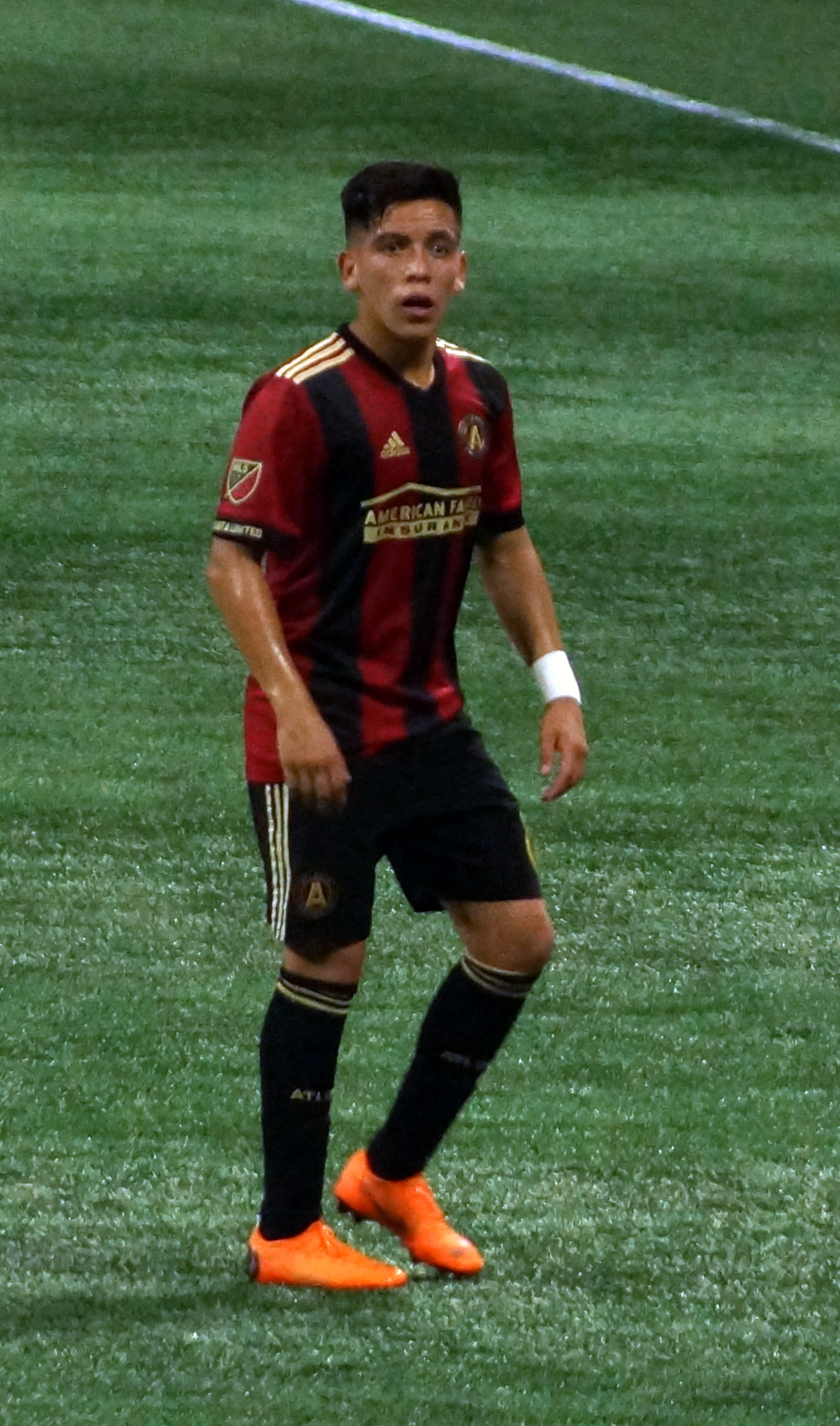 Ezequiel Barco playing for Atlanta United on June 2, 2018